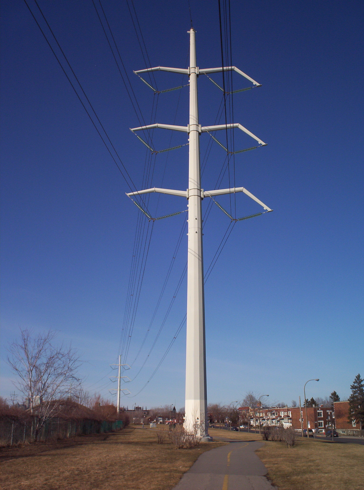 High tension electric line, in Montreal (Verdun), Quebec